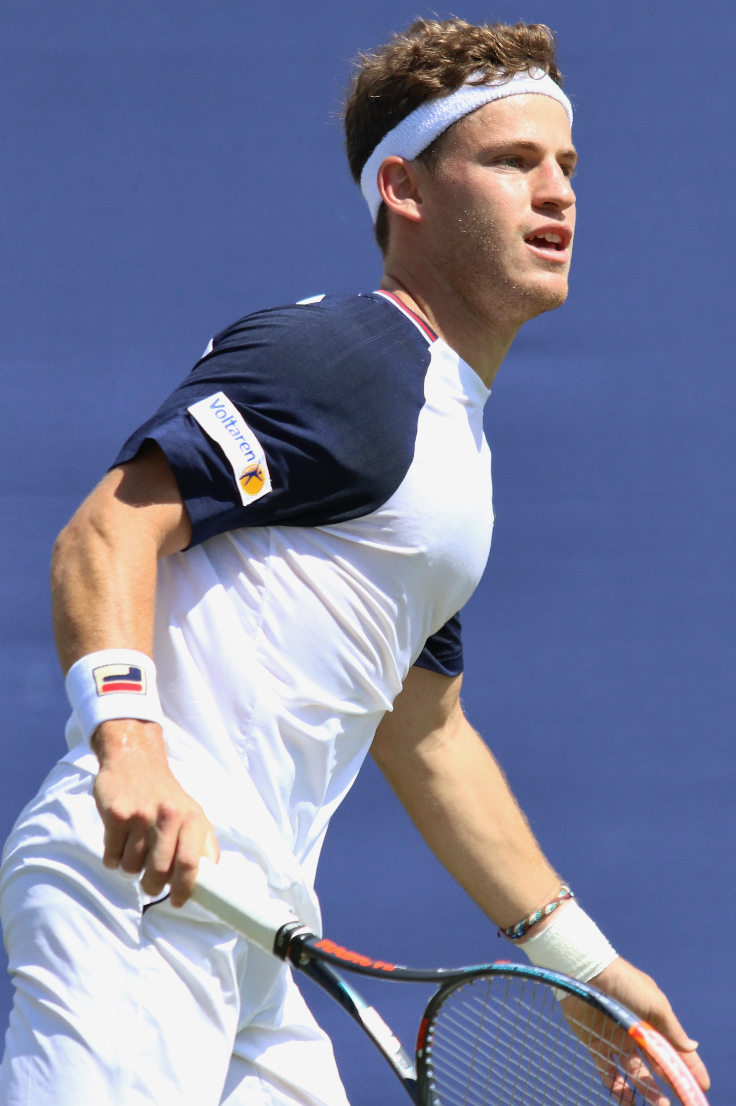 Schwartzman at the Eastbourne International tournament